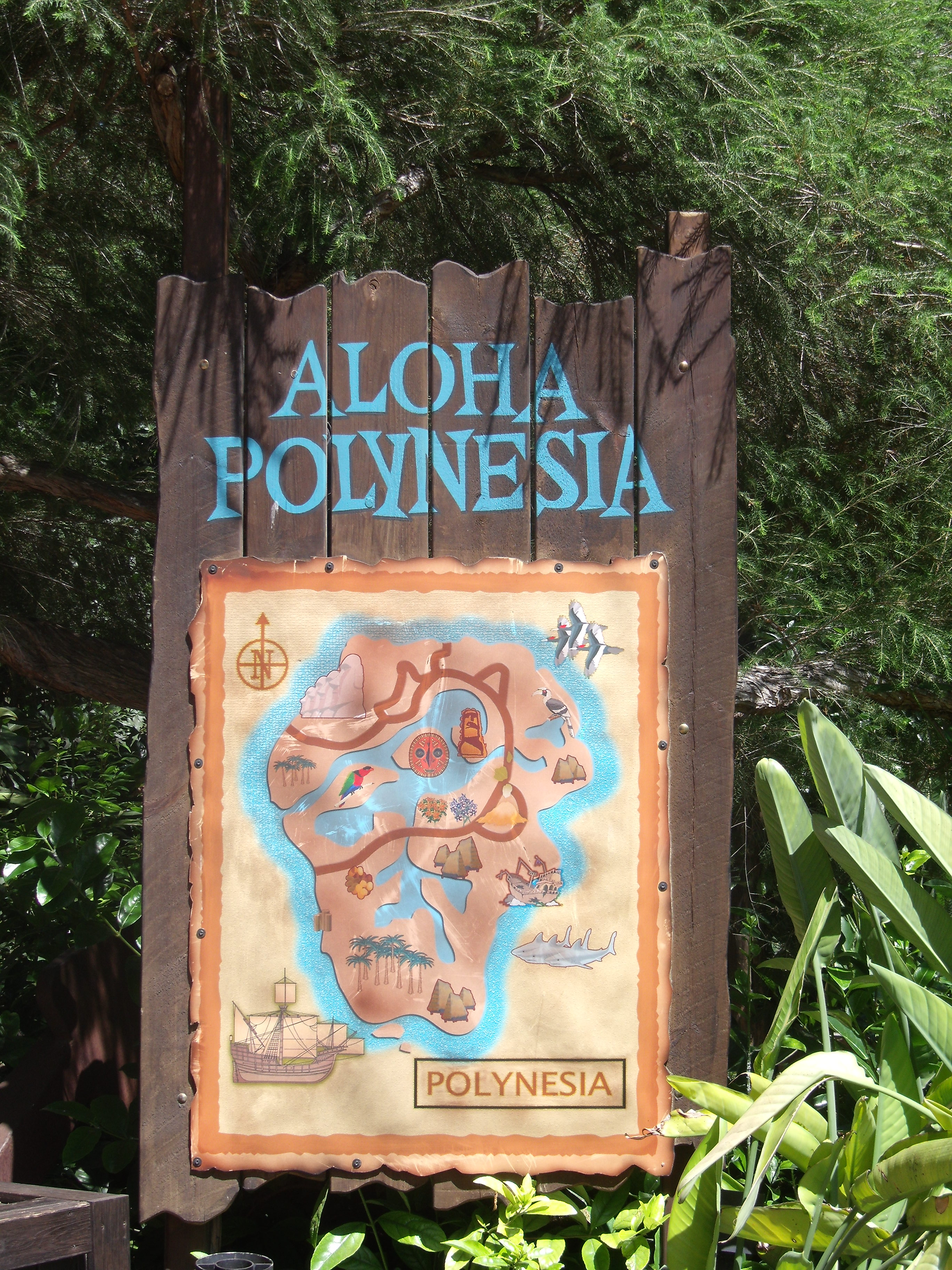 The entrance to Polynesia in PortAventura.